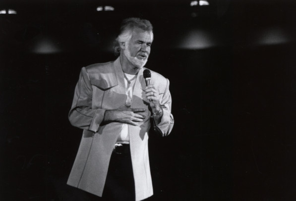 TitleKenny Rogers DescriptionSinger; Special Arts Concert, 1991. Genreblack-and-white photographs Subject (Name)Rogers, Kenny University of Houston Subject (SAA)visitors Subject (AAT)singers Subject (Geographic)Houston, Texas CollectionUH Photographs Collection, 1948-2000 RepositorySpecial Collections, University of Houston Libraries Use and ReproductionThis image is in the public domain and may be used freely. If publishing in print, electronically, or on a website, please use the citation: "Courtesy of Special Collections, University of Houston Libraries. UH Digital Library. " Kenny Rogers